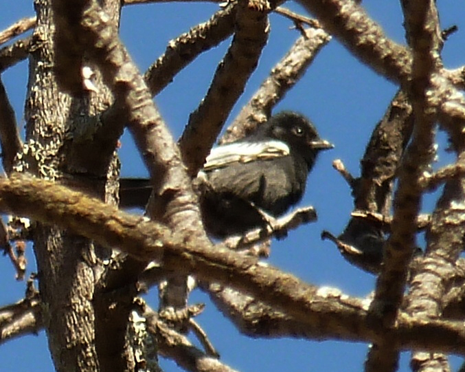 Black tit foraging in leafless canopy of a wild seringa, Waterberg, South Africa